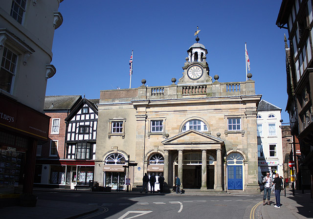 The Buttercross, Broad Street, Ludlow Built in 1744, Ludlow's Grade I listed Buttercross is a fine classical design topped with a cupola.